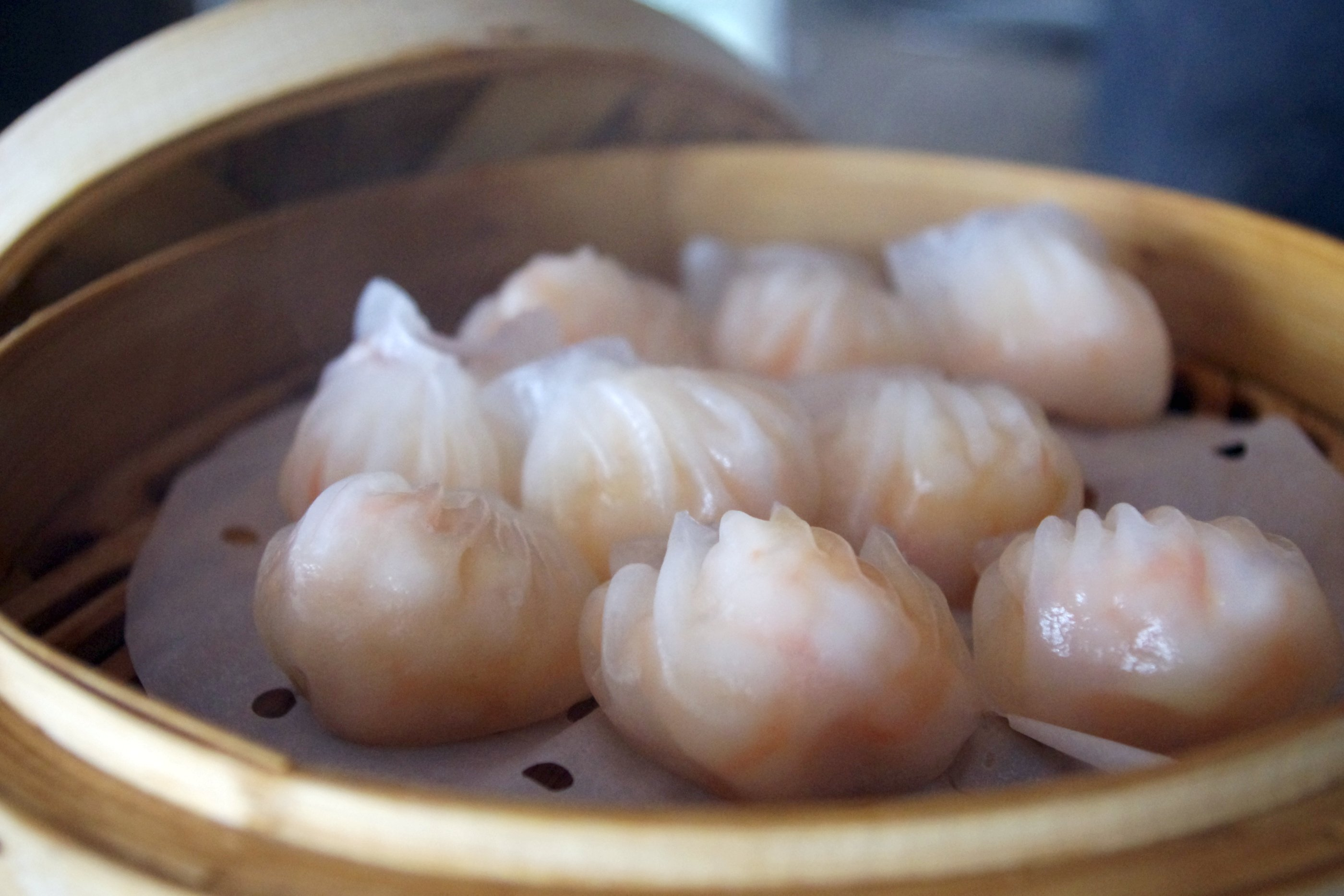 Grand Club @ Grand Hyatt Guangzhou